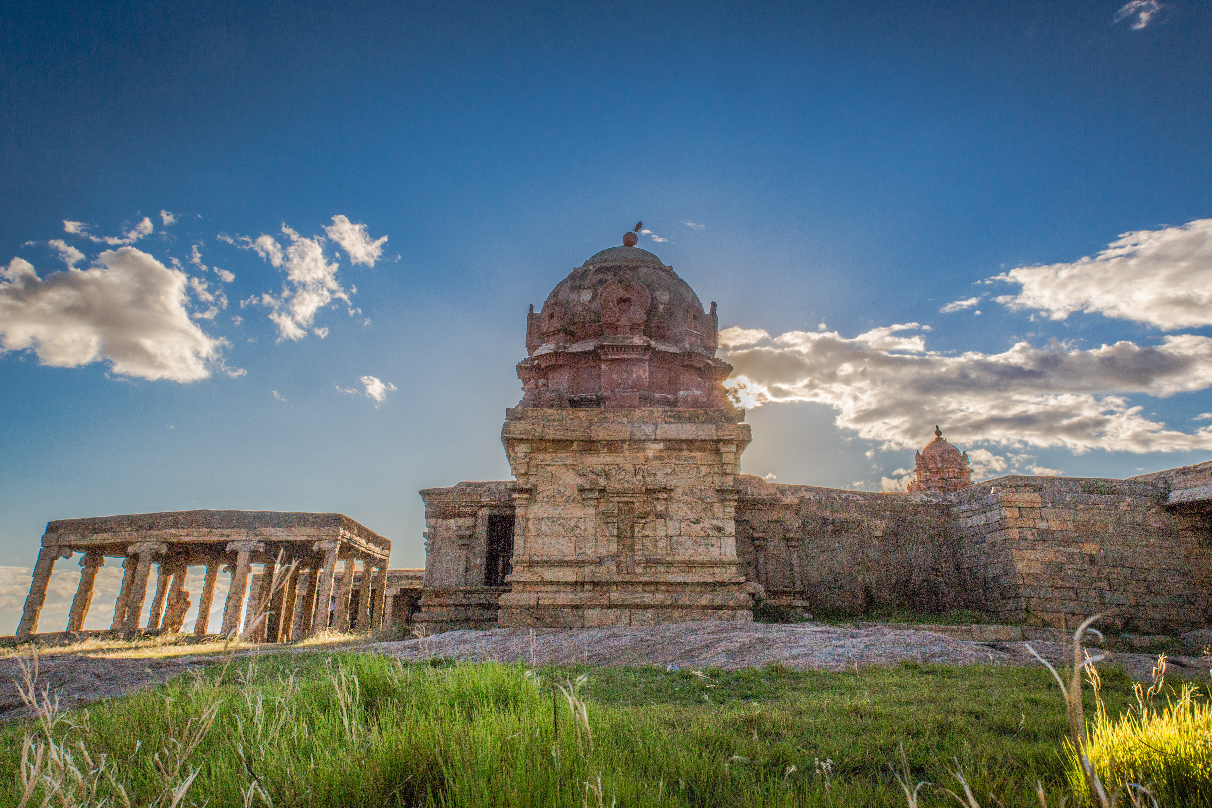 The beautiful temple atop the Dindigul fort was built during the rule of the Nayaks in 17th century.